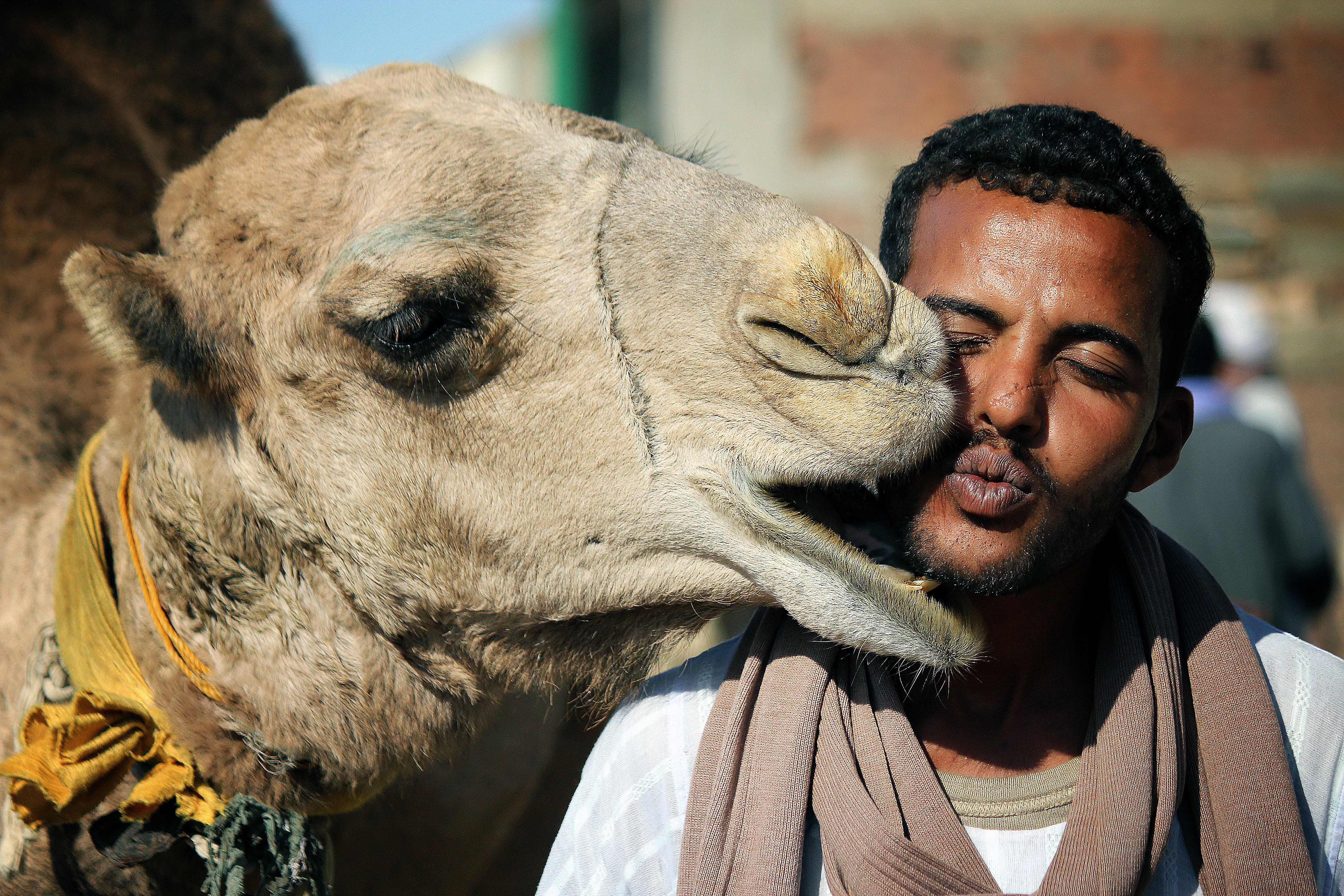 WIKI LOVES AFRICA 2019 THEME: PLAY This is an image with the theme "Play" from: Egypt